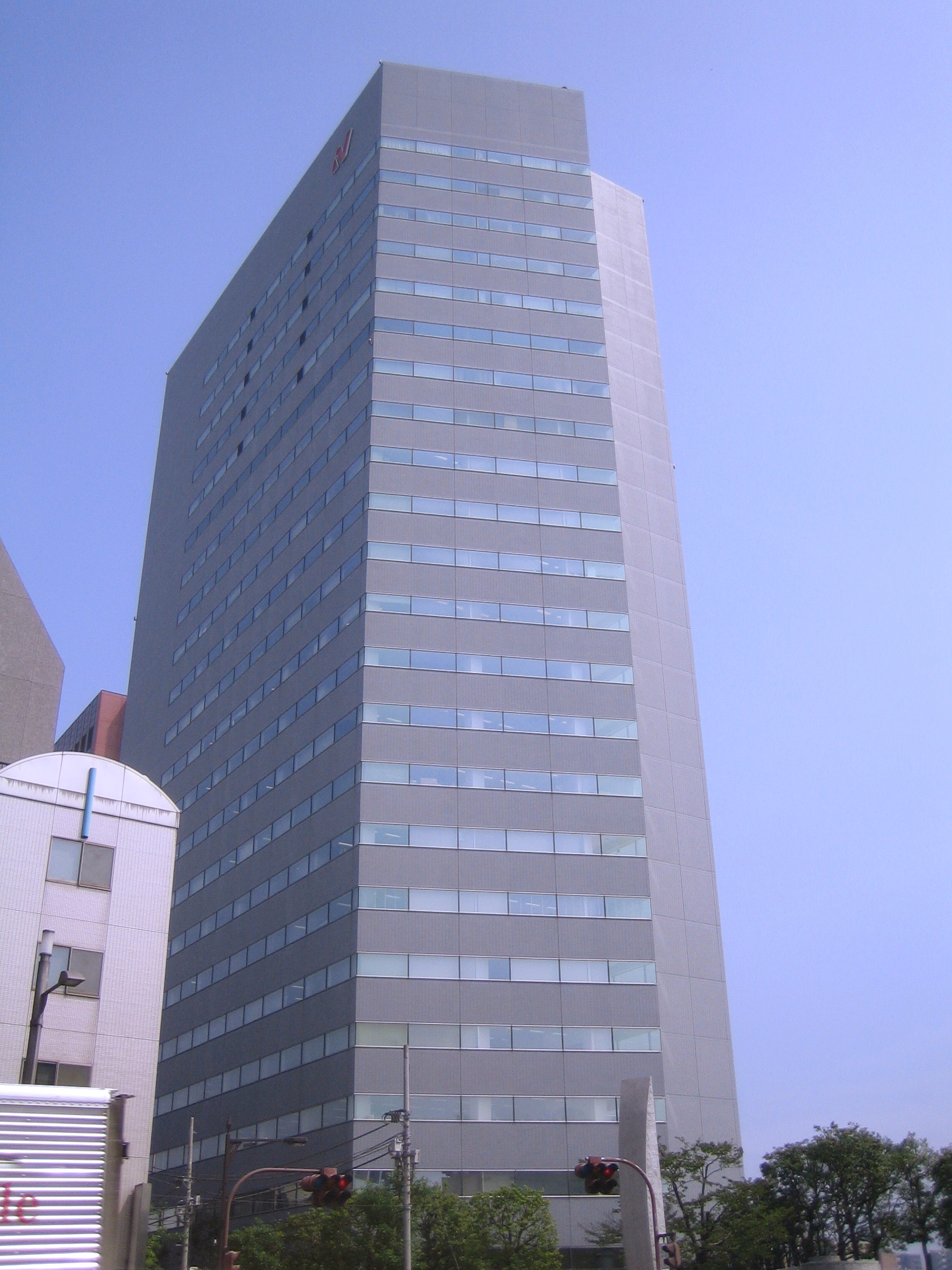 ニチレイ本社。東京都中央区築地 headquarters of the Nichirei (ニチレイ), at Tsukiji, Chuo, Tokyo, Japan